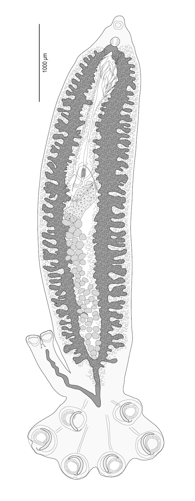 Protocotyle euzetmaillardi Justine, 2011 (Monogenea, Polyopisthocotylea, Hexabothriidae), a parasite of the bigeye sixgill shark Hexanchus nakamurai off New Caledonia. Holotype. Original drawing by Jean-Lou Justine. Species described in the article: Justine, J.-L. 2011: Protocotyle euzetmaillardi n. sp (Monogenea: Hexabothriidae) from the bigeye sixgill shark Hexanchus nakamurai Teng (Elasmobranchii: Hexanchidae) off New Caledonia. Systematic Parasitology, 78, 41-55.